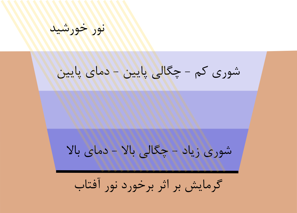 Solar pond